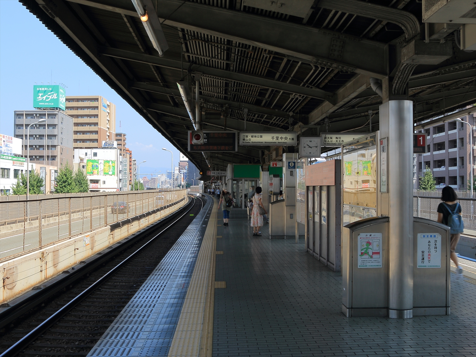 Platform from Higashimikuni Station.